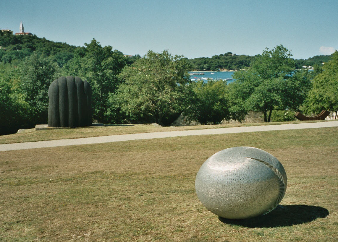 Sculpture park in Vrsar (Istria)